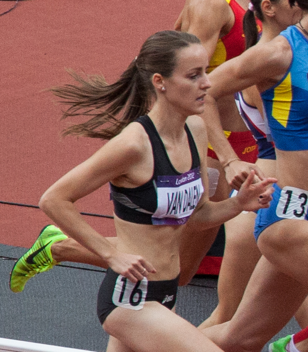 Olympic Stadium, 6 August 2012, London Olympic Games, Women's 1,500 metres heats, Tuğba Karakaya, Lucia Klocová, Lucy Van Dalen, Natalia Rodríguez, Anzhelika Shevchenko, Btissam Lakhouad, Marina Munćan, Hilary Stellingwerff, Tatyana Tomashova, Corinna Harrer, Shannon Rowbury, Maryam Jamal, Hannah England, Hellen Onsando Obiri